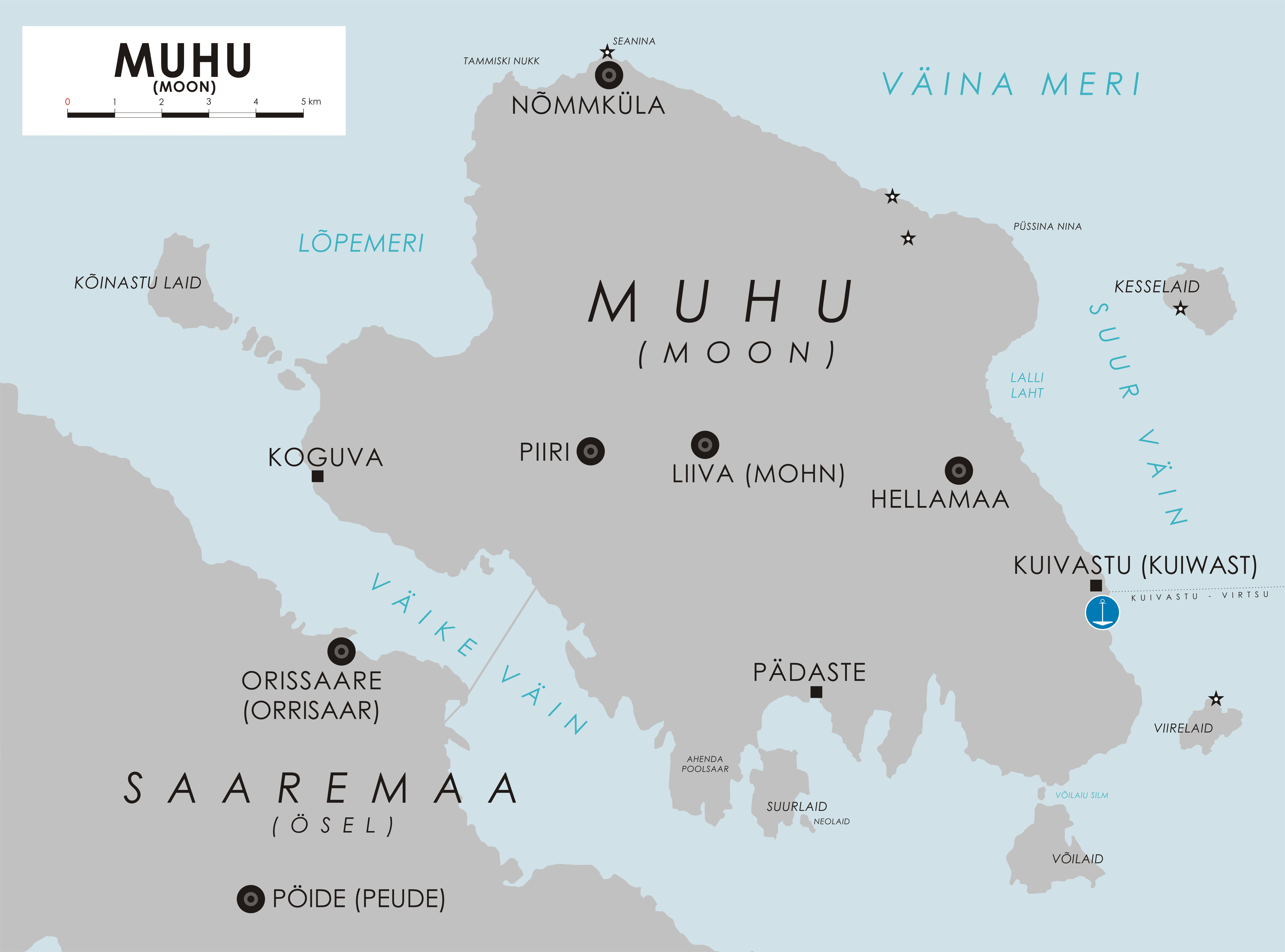 Map of the island of Muhu in Estonia.